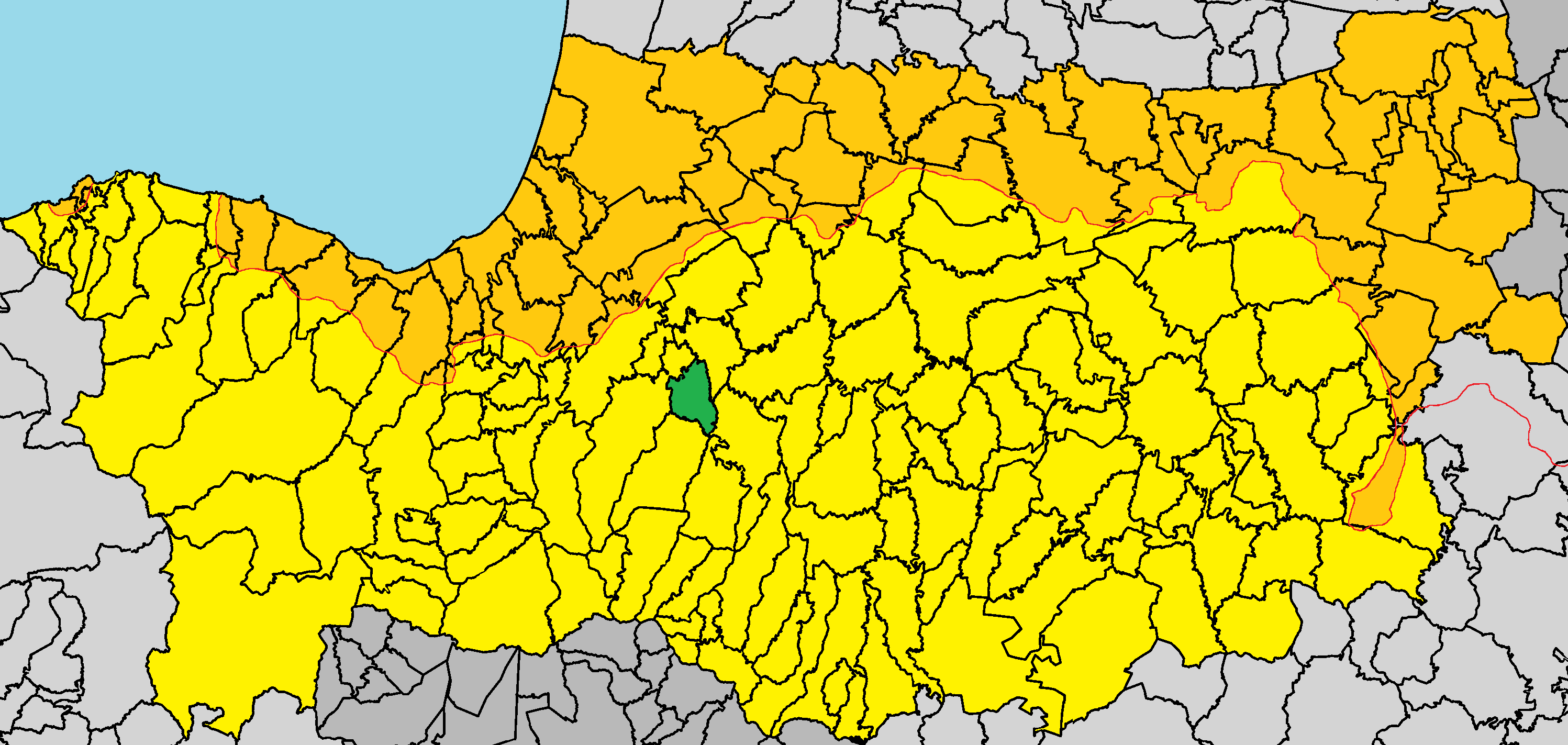 Vyzakia in Nicosia District.